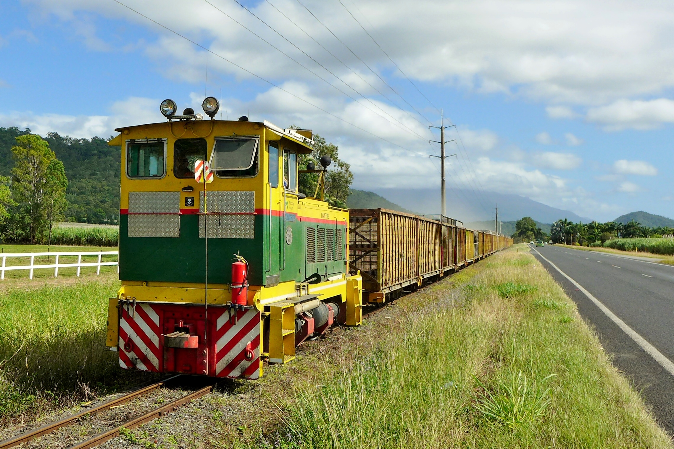 Mackay Sugar diesel-hydraulic locomotive Daintree heading southeast alongside the Captain Cook Highway, Killaloe, near Mossman, Far North Queensland, Australia, with a train of empty cane bins.